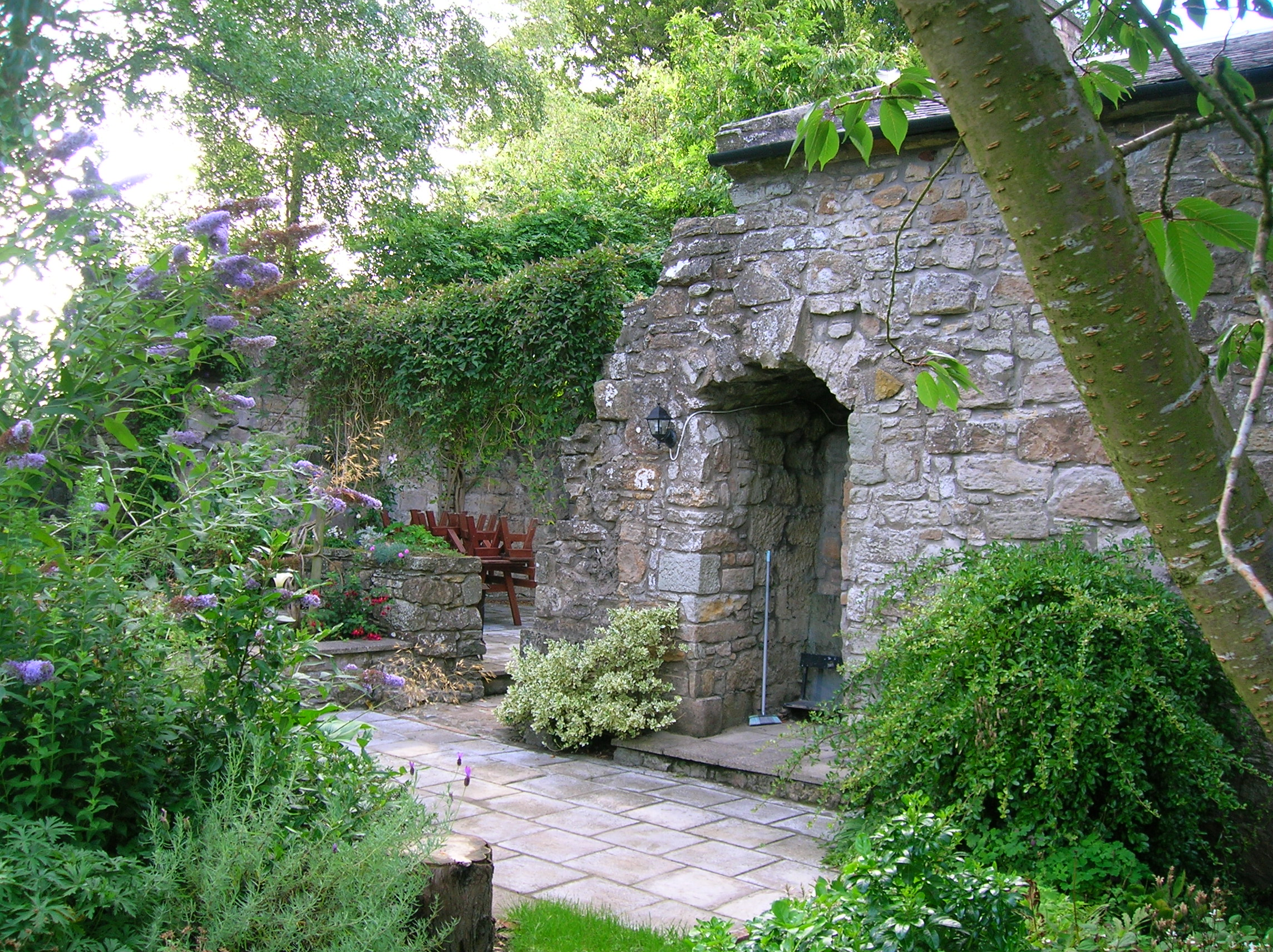 Part of the incomplete vaulted chamber of the building complex. East Ayrshire, Scotland